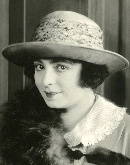 Mrs. Wallace Reid aka Dorothy Davenport, film actress, for the American film Human Wreckage (1923). Subjects: actresses, motion pictures